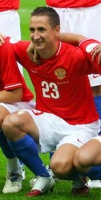 Vladimir Bystrov before home match against FYR Macedonia